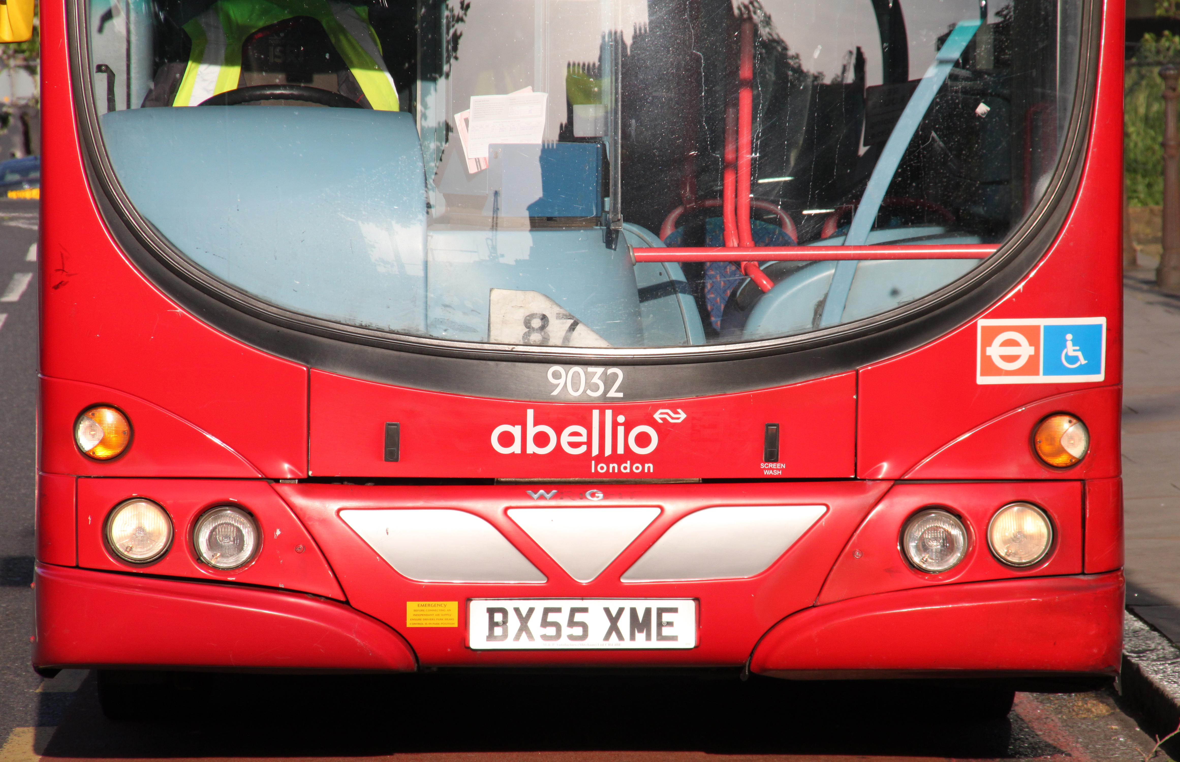 An Abellio bus in London.